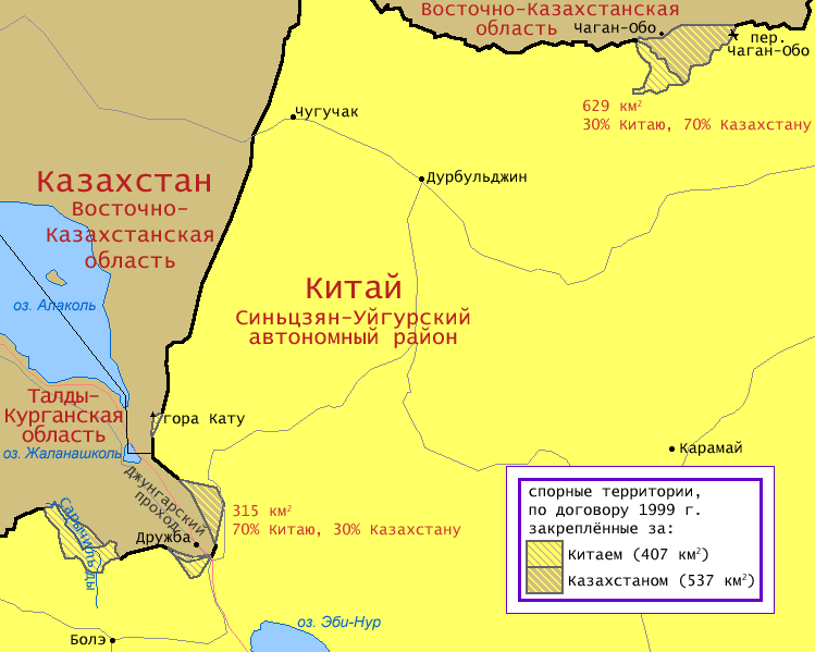 Changes of border between Kazakhstan and China